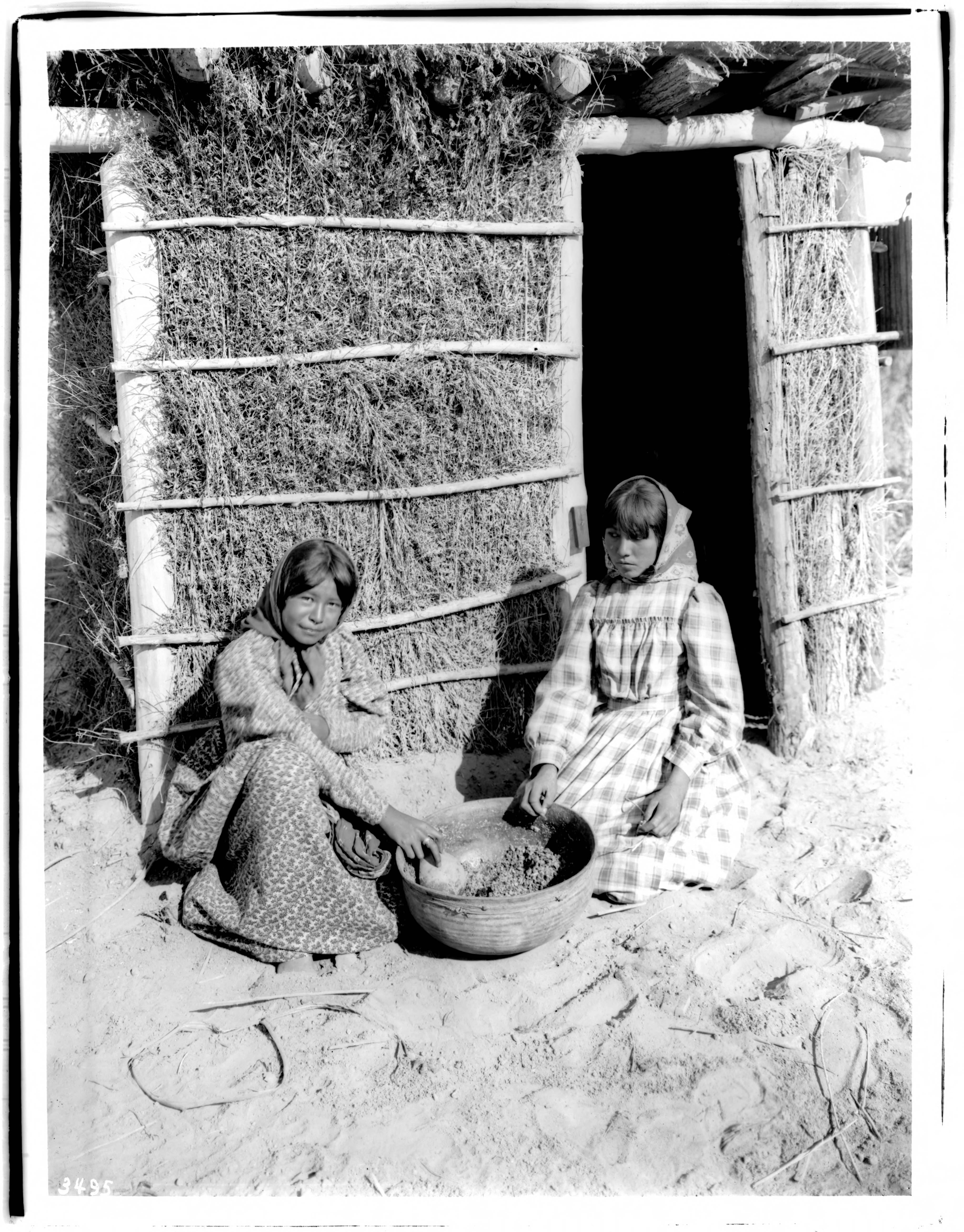 Two young Chemehuevi Indian girls making a drink from mesquite beans, ca.1900 Photograph of two young Chemehuevi Indian girls preparing a drink from mesquite beans, ca.1900. They sit knealing on the ground on either side of a large pot of beans in front of a wall of sticks and thatching of a dwelling. A doorway to the dwelling is behind the girl on the right. They both wear long print dresses and kerchiefs about their heads. Call number: CHS-3495 Photographer: Pierce, C.C. (Charles C.), 1861-1946 Filename: CHS-3495 Coverage date: circa 1900 Part of collection: California Historical Society Collection, 1860-1960 Type: images Part of subcollection: Title Insurance and Trust, and C.C. Pierce Photography Collection, 1860-1960 Repository name: USC Libraries Special Collections Format: glass plate negatives Microfiche number: 1-164- Archival file: chs_Volume95/CHS-3495.tiff Repository address: Doheny Memorial Library, Los Angeles, CA 90089-0189 Geographic subject (country): USA Format (aacr2): 2 photographs : glass photonegative, photoprint, b&w ; 22 x 17 cm. Rights: Digitally reproduced by the USC Digital Library; From the California Historical Society Collection at the University of Southern California Subject (adlf): tribal areas Project: USC Accession number: 3495 Repository Contributing entity: California Historical Society Date created: circa 1900 Publisher (of the digital version): University of Southern California. Libraries Format (aat): photographic prints; photographs Legacy record ID: chs-m16111; USC-1-1-1-13493 Access conditions: Send requests to address or e-mail given. Phone (213) 821-2366; fax (213) 740-2343. Subject (file heading): Indians -- Chemehuevi Subject (lcsh): Indians of North America; Chemehuevi Indians; Women; Cookery Subject: Chemehuevi Indians; Indians; Chemehuevi Indians